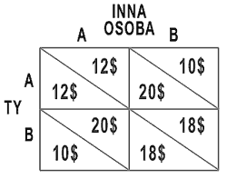 matrix game